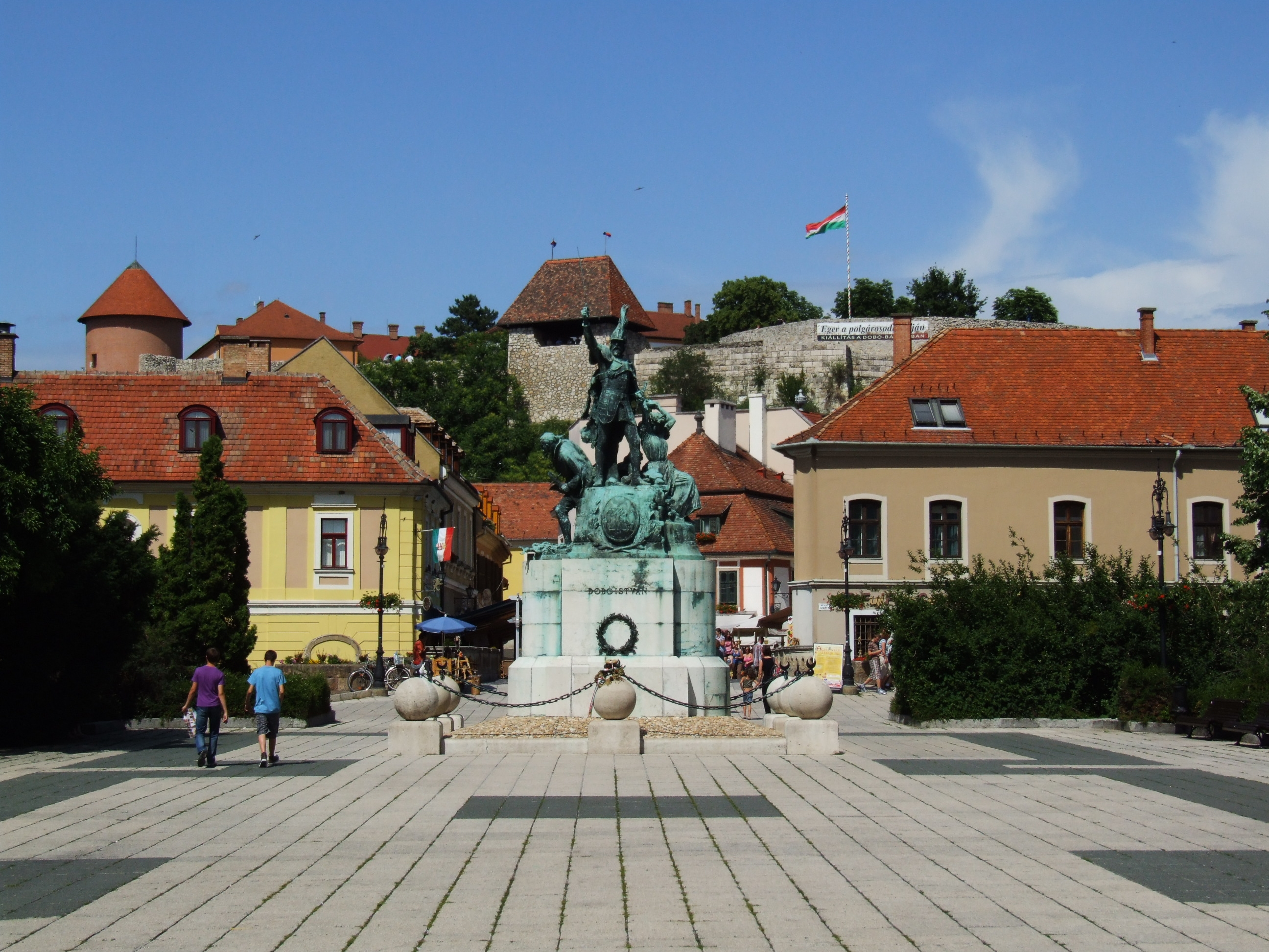 Eger - Dobó Square